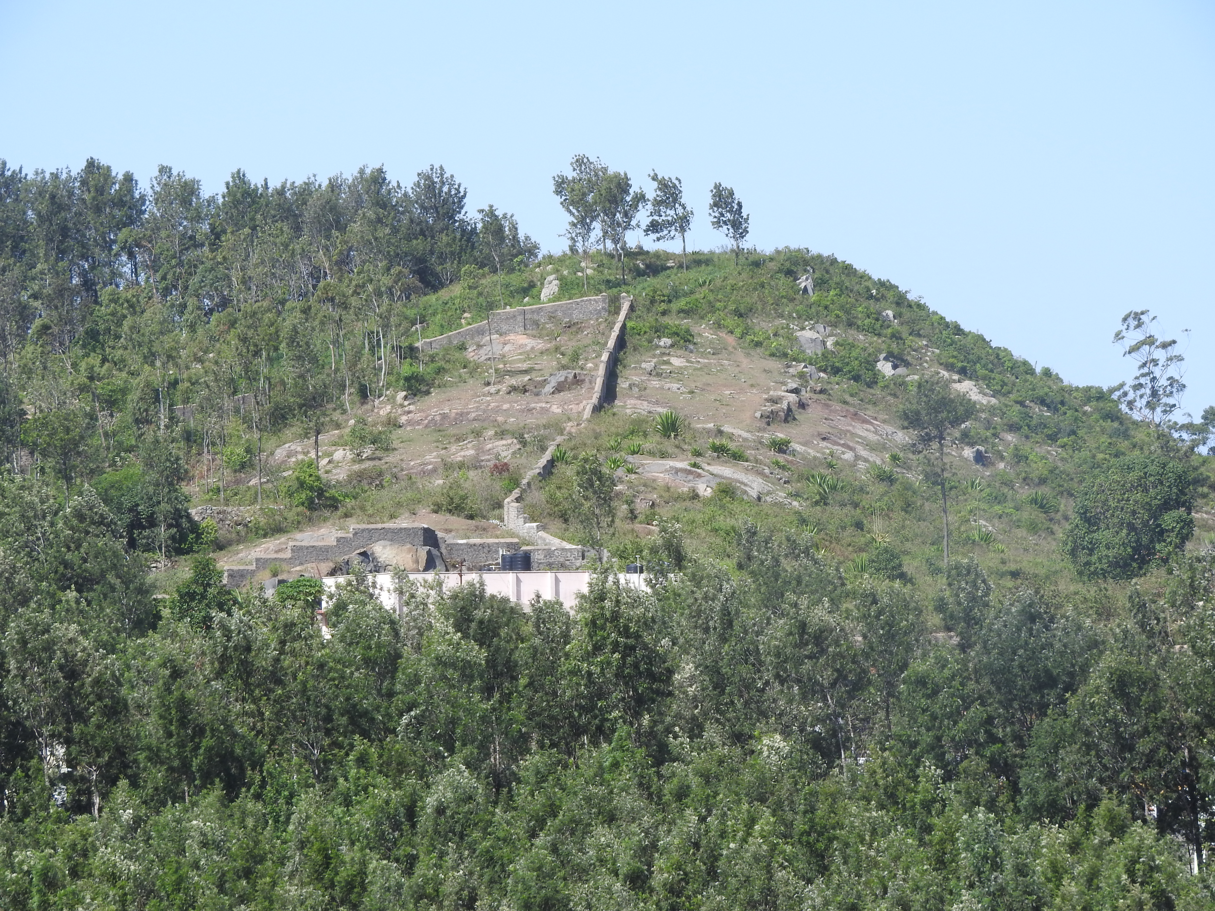 Old view point list no-55.